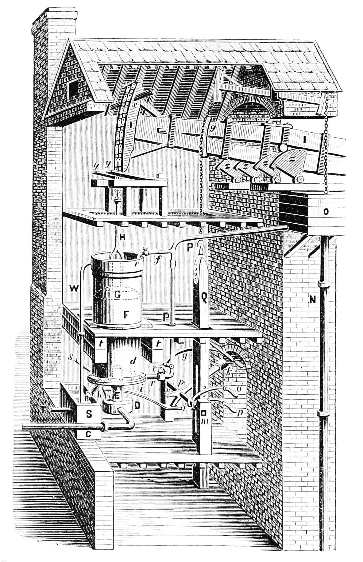 Newcomen engine as improved by smeaton 1775